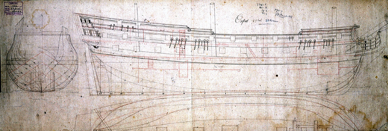 'Oxford' (1727) Scale: 1:48. Plan showing the body plan, sheer lines with inboard detail, and longitudinal half-breadth with some deck details, for 'Oxford' (1727), a 1719 Establishment 50-gun Fourth Rate, two-decker. 'Oxford' (1727)